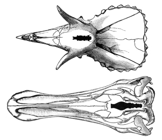 1922 diagram of the skulls of Triceratops (at top) and Trachodon (Edmontosaurus): illustrating the small size of the brains shown in black. The brains of these animals, twice the bulk of an elephant, were the size of a man's fist.